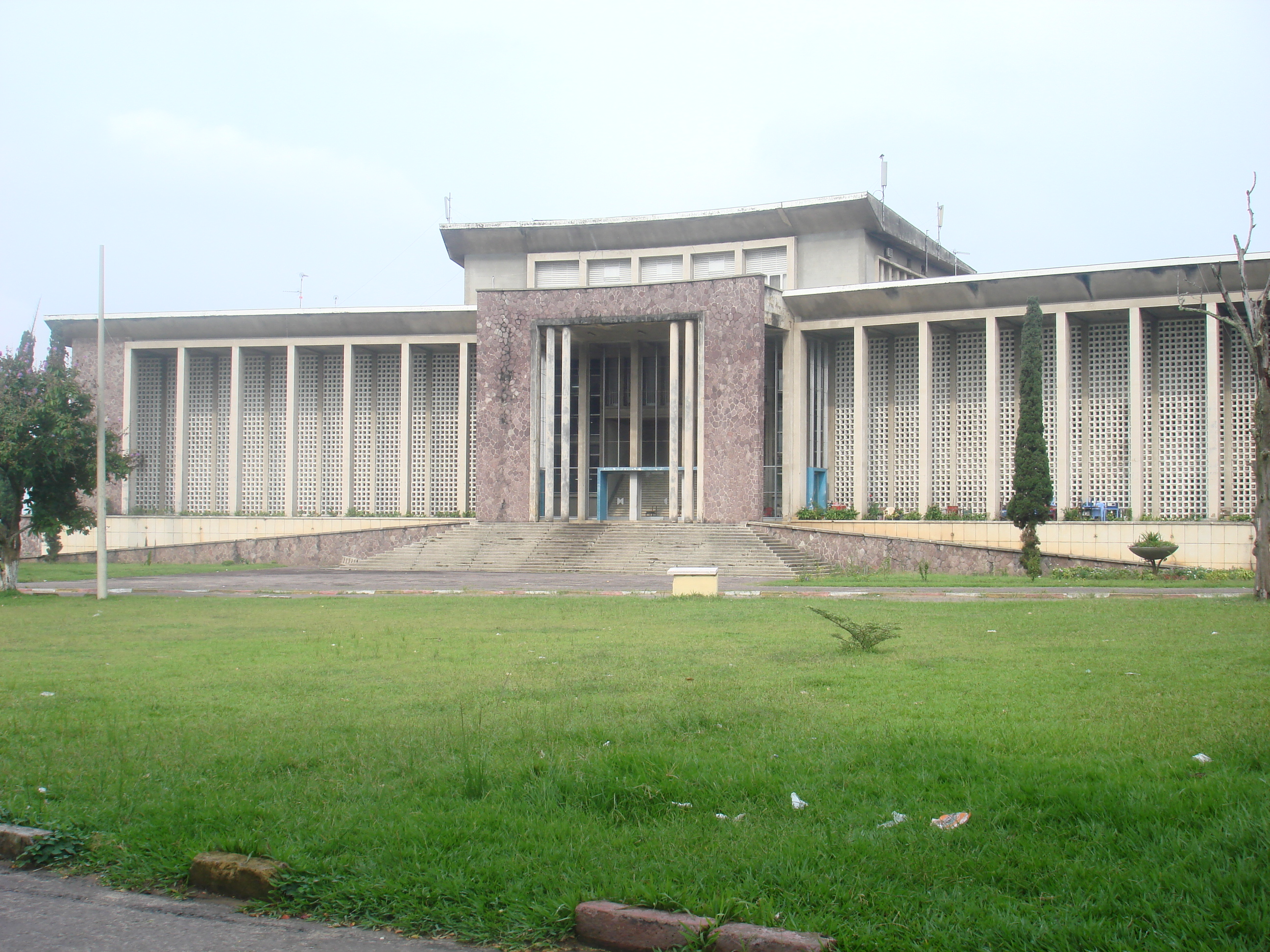 Université de Kinshasa, Rectorat...